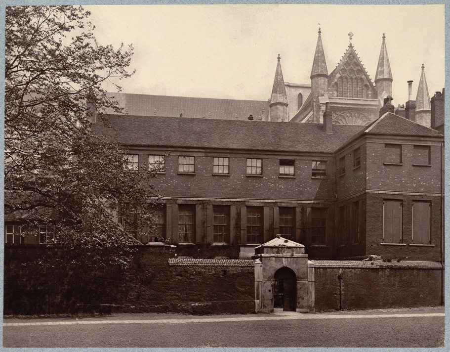 View of the exterior of Ashburnham House, London, by the English photographer Henry Dixon. Courtesy of the British Library.